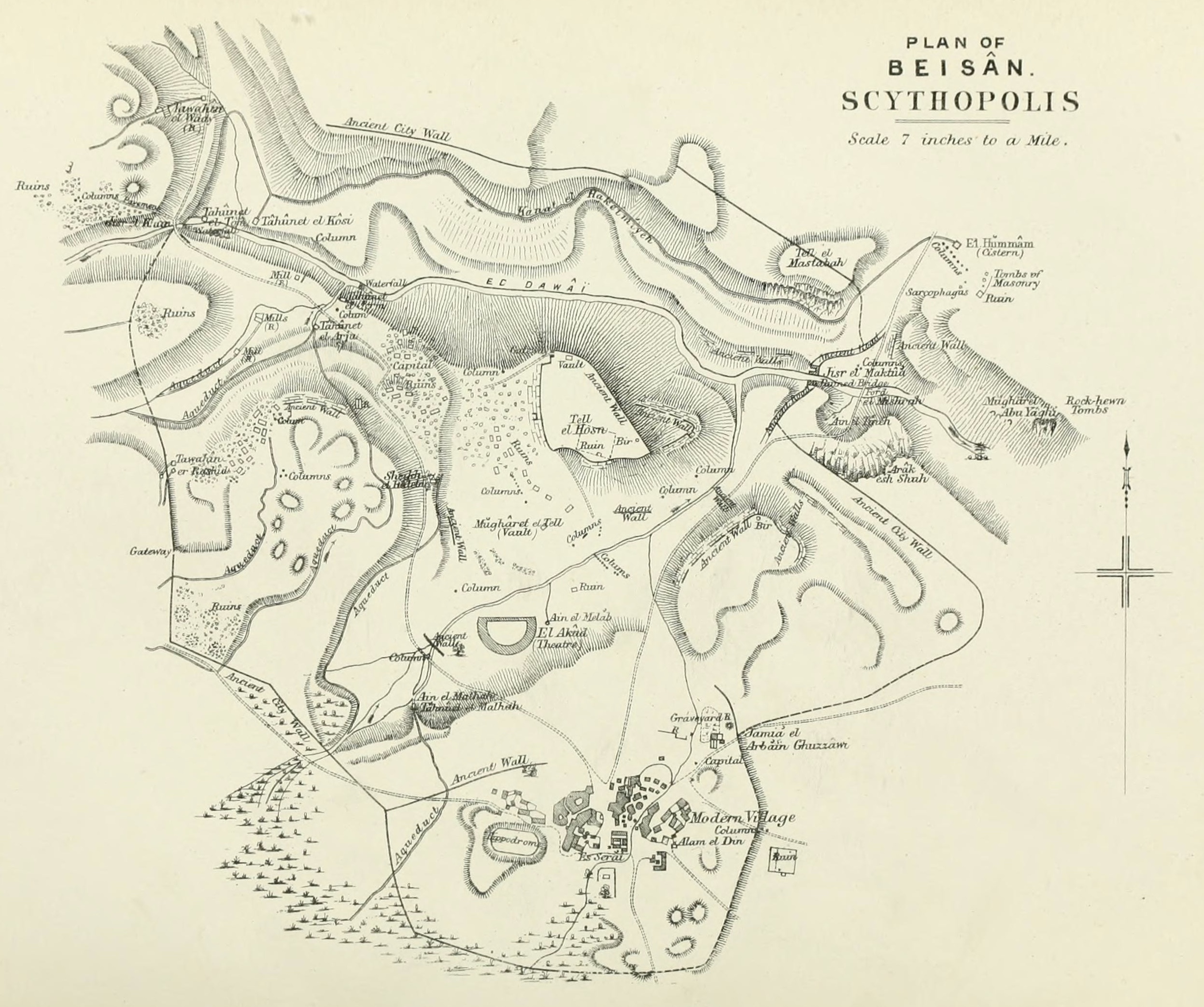 Plan of Beisan-Scythopolis from the 1871-77 Palestine Exploration Fund Survey of Palestine